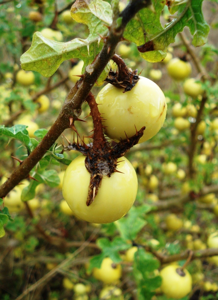 Solanum linnaeanum - Fruits